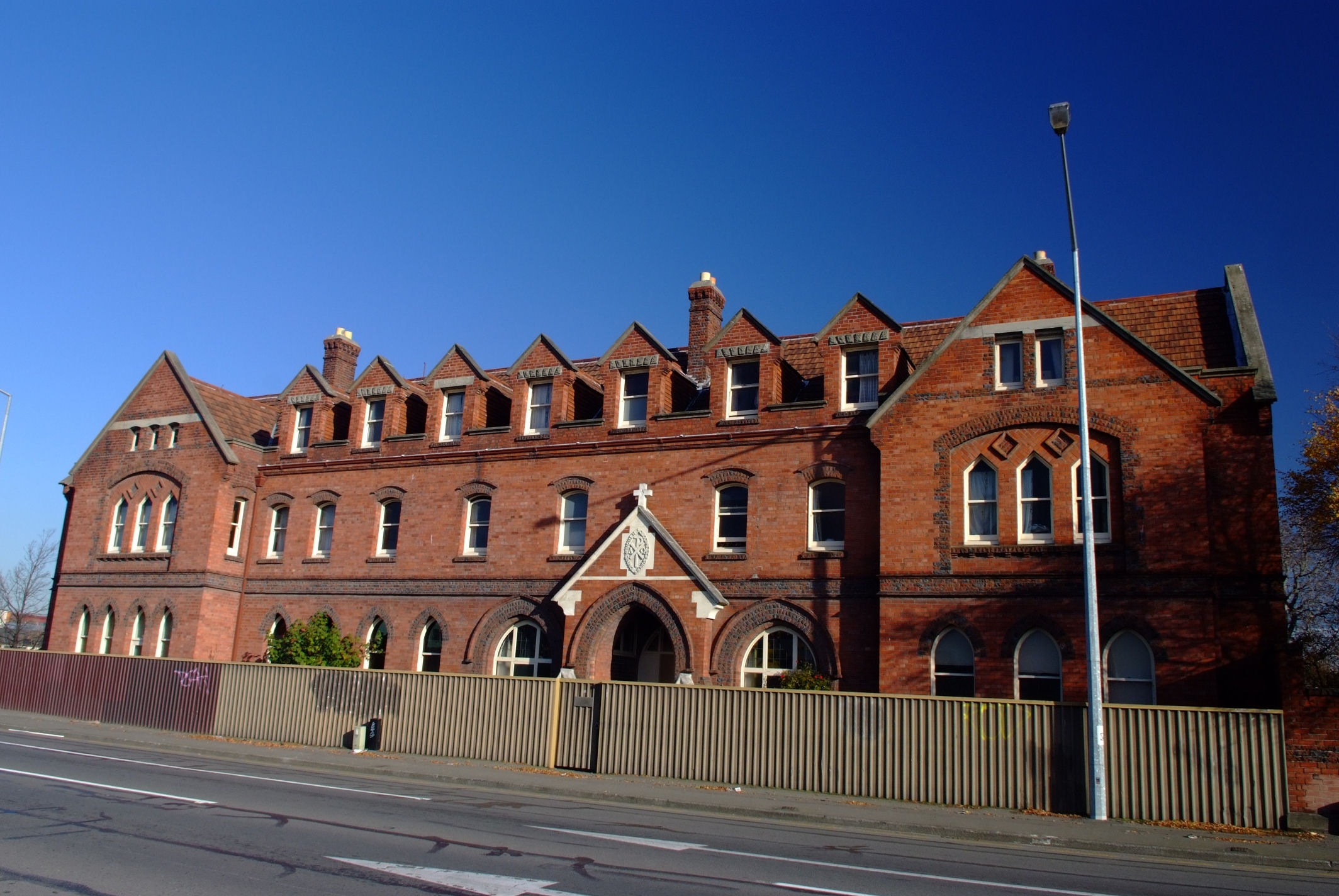 The Community of the Sacred Name in June 2008.